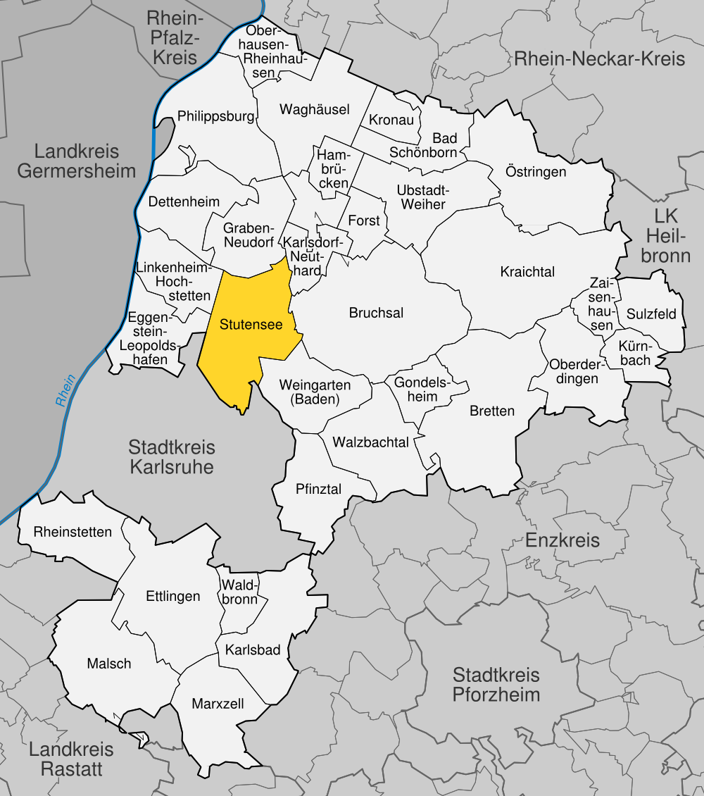 position of Stutensee within distict of Karlsruhe, Baden-Württemberg, Germany